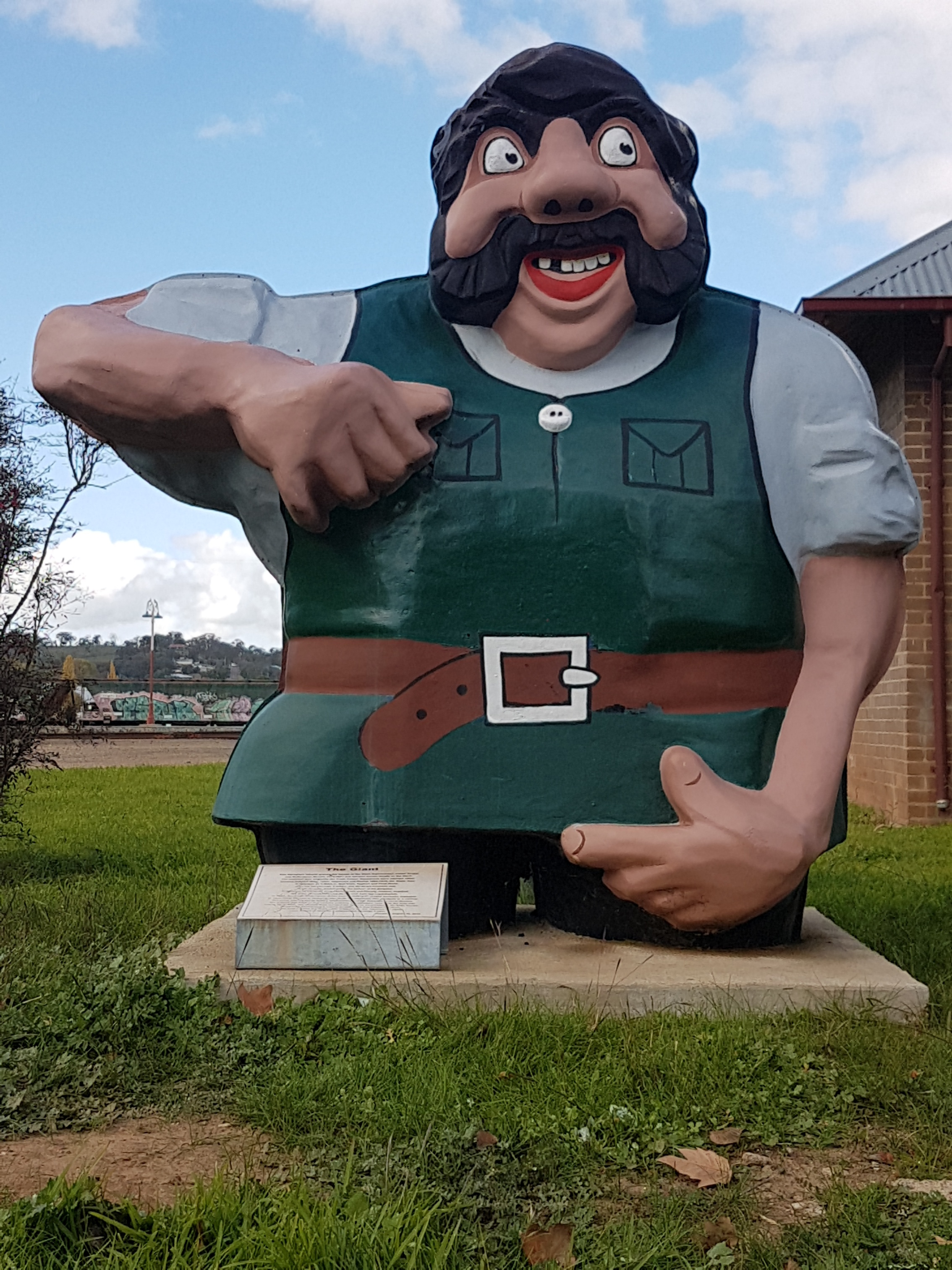 Head and torso statue of a fairytale giant built of fibreglass and exhibited near the Heritage Centre, Cootamundra, New South Wales